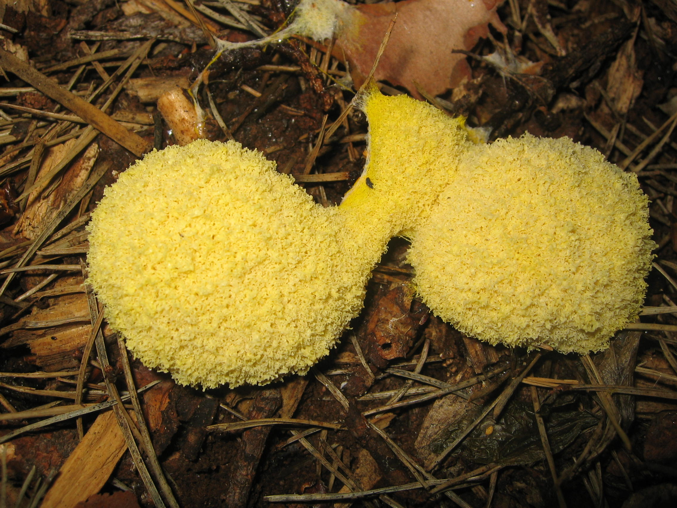 Yellow slime mould, Fuligo rufa (young), (Myxogastria)